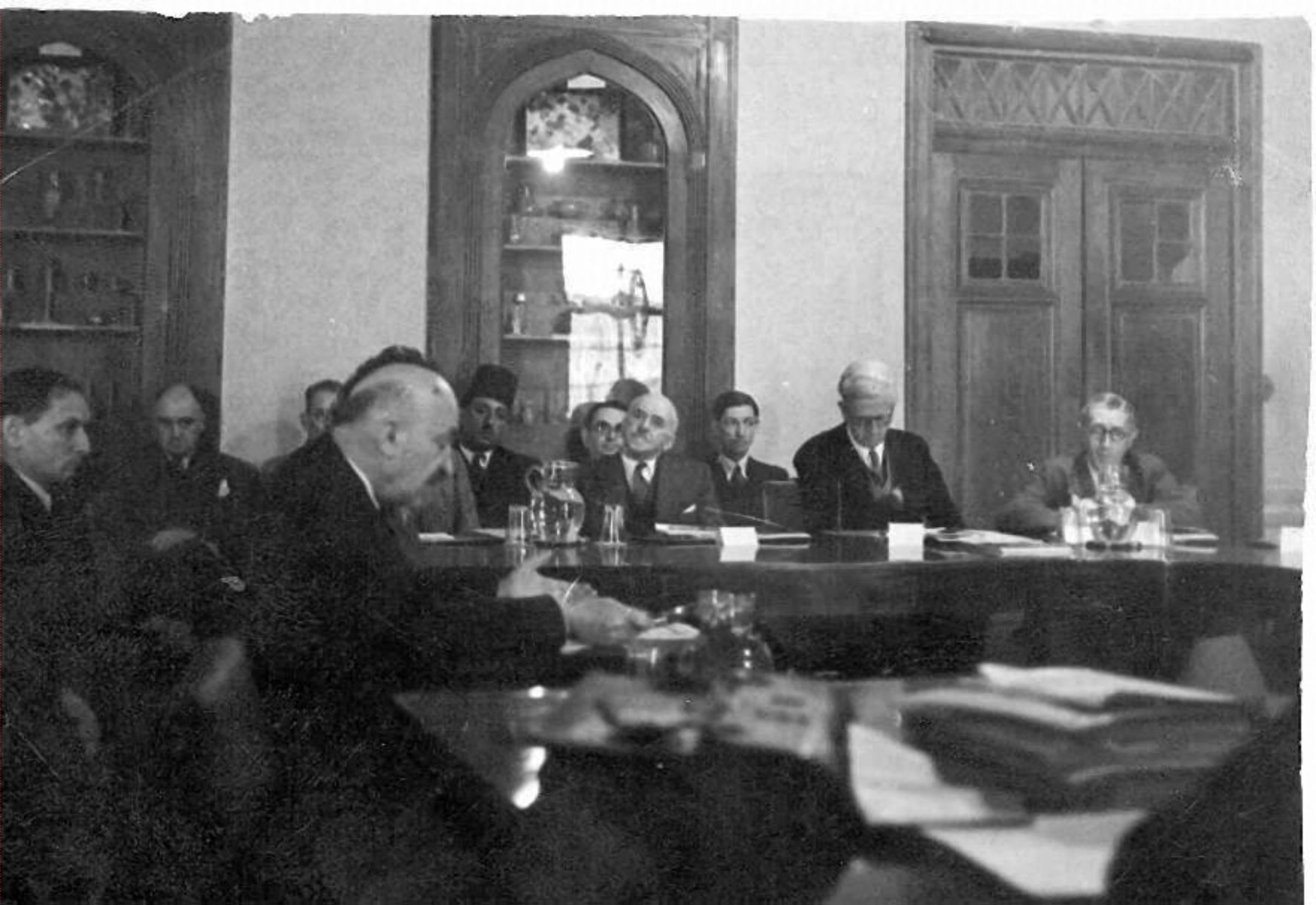 Chaim Weizmann speaking before the Anglo-American Committee of Inquiry